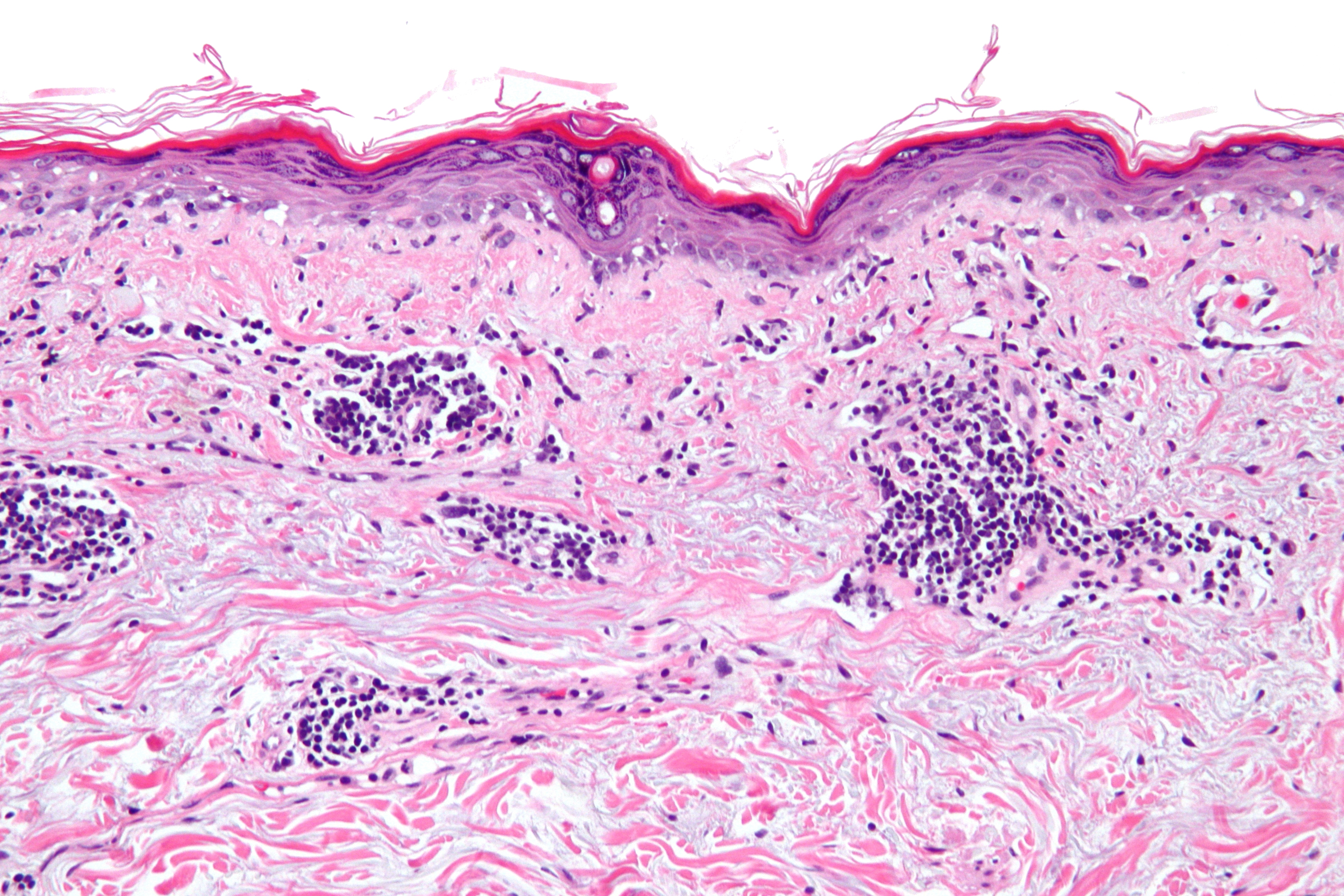 High magnification micrograph of a vacuolar interface dermatitis with dermal mucin. These findings are consistent with lupus dermatitis. Related images Low mag. Intermed. mag. High mag. Very high mag.